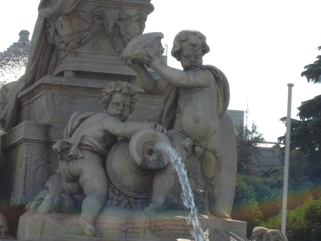 Detail of the Fountain of Cybele, at Plaza de Cibeles (square) in Madrid (Spain). The two putti were sculpted by Miguel Ángel Trilles (left) and Antoni Parera (right), and added to the fountain in 1895.